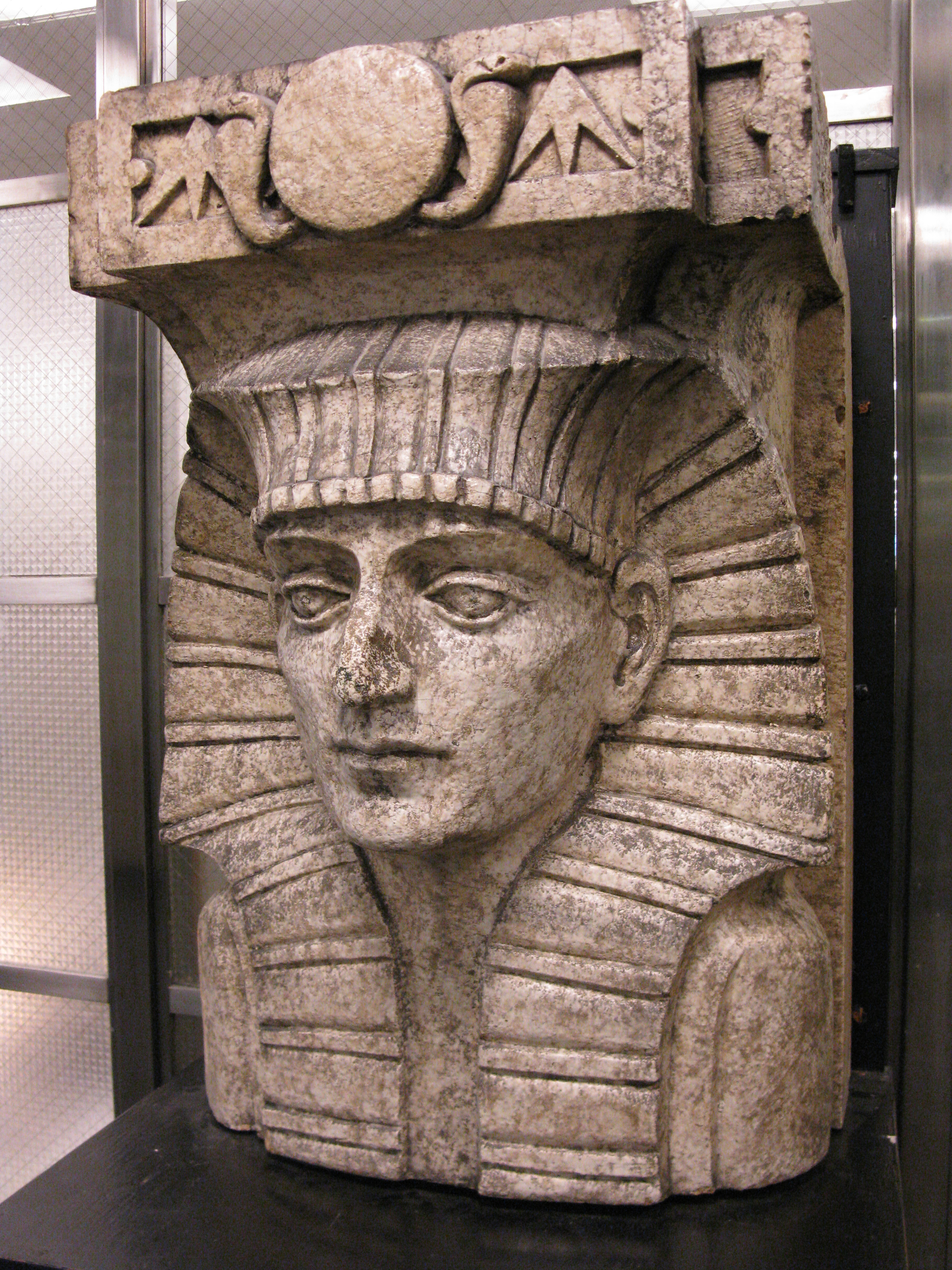 Pharaoh's head in terra cotta, a stylized ornament from the Levitan Building at 15-19 W. Main Street, in Madison, Wisconsin. The head topped a column which was copied from an original in the Art Institute of Chicago. Designed by Claude and Starck and constructed in 1928, the Egyptian-themed art deco building on the Capitol Square was demolished in 1974 by the neighboring Affiliated Bank of Madison and was initially replaced by a parking lot and a city-designed parking alcove park. The Risser Justice Center now occupies the location. This remnant was presented by the Affiliated Bank to the art collection of the University of Wisconsin-Madison, which has loaned it to the City of Madison for display in the ground floor corridor of the City-County Building.